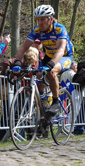 Pieter Ghyllebert in the 2008 Paris-Roubaix (Trouée d'Arenberg)